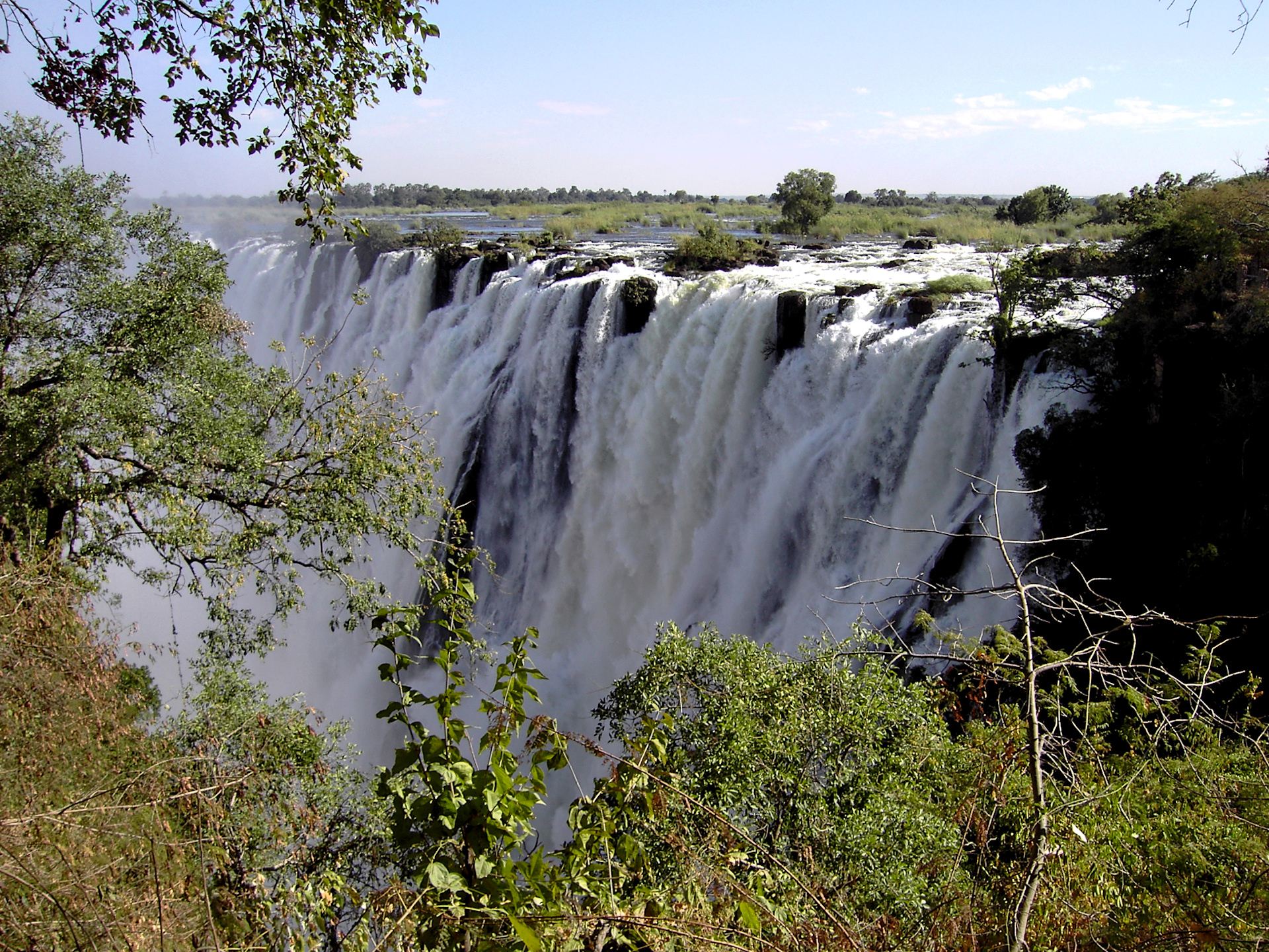 Victoria Falls, Zambia